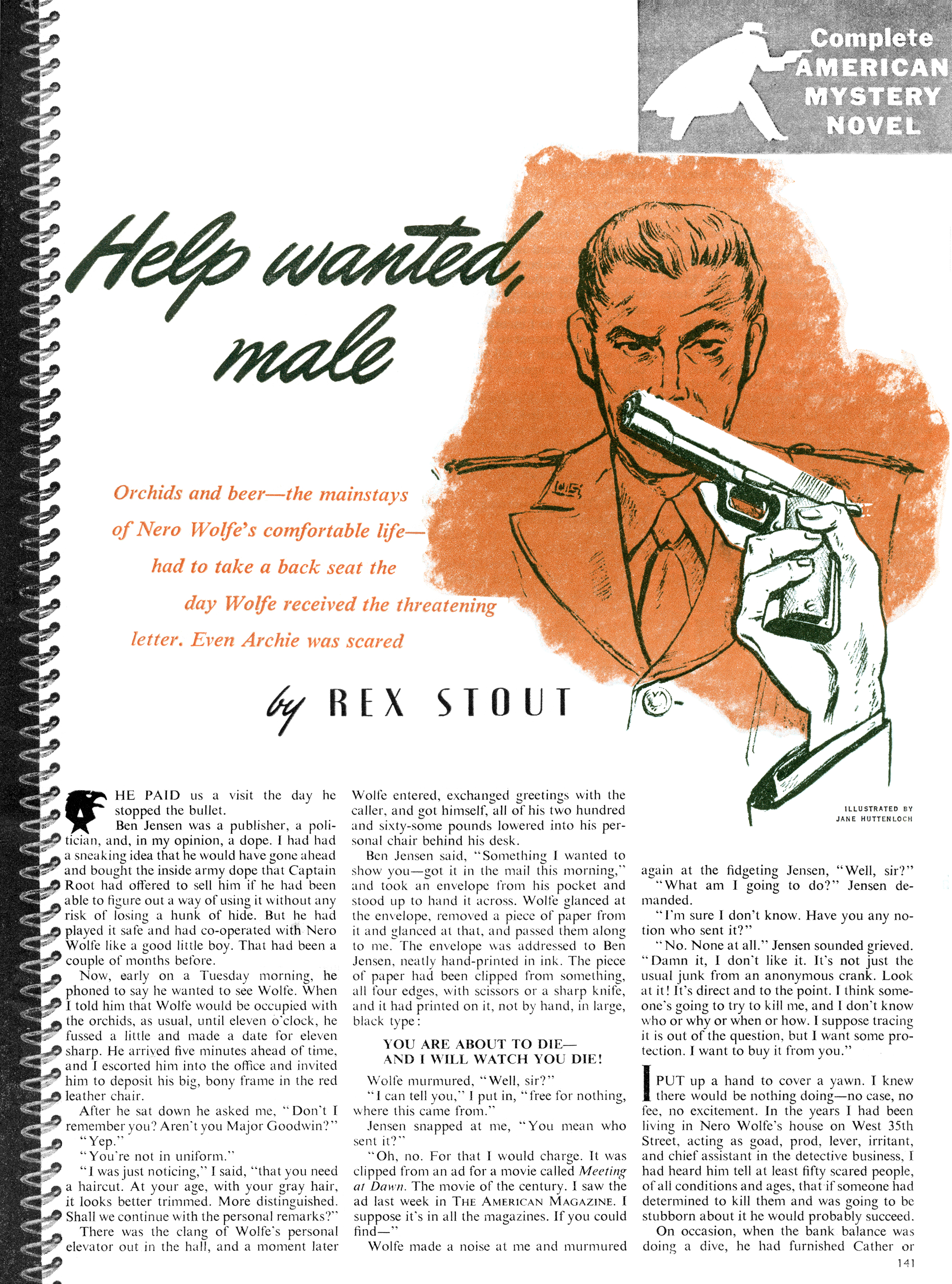 Lead illustration for "Help Wanted, Male", a Nero Wolfe story by Rex Stout that first appeared in The American Magazine